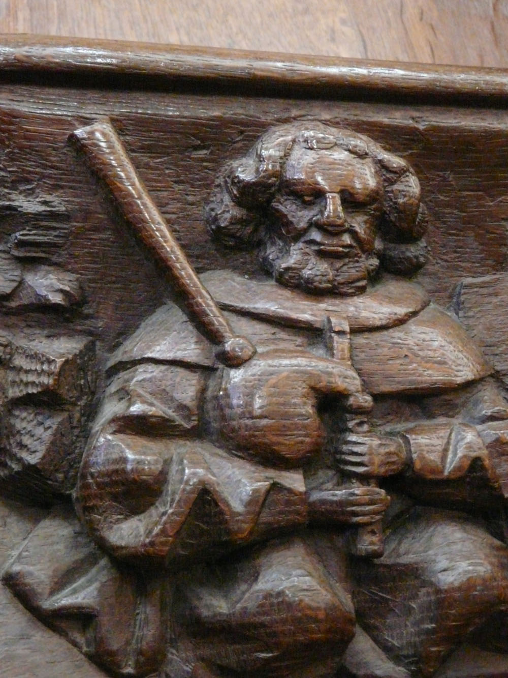 Loure player or norman bagpiper (see . Sculpture from the Collegial church of Mortain (Normandy), from the end of the Middle Age.